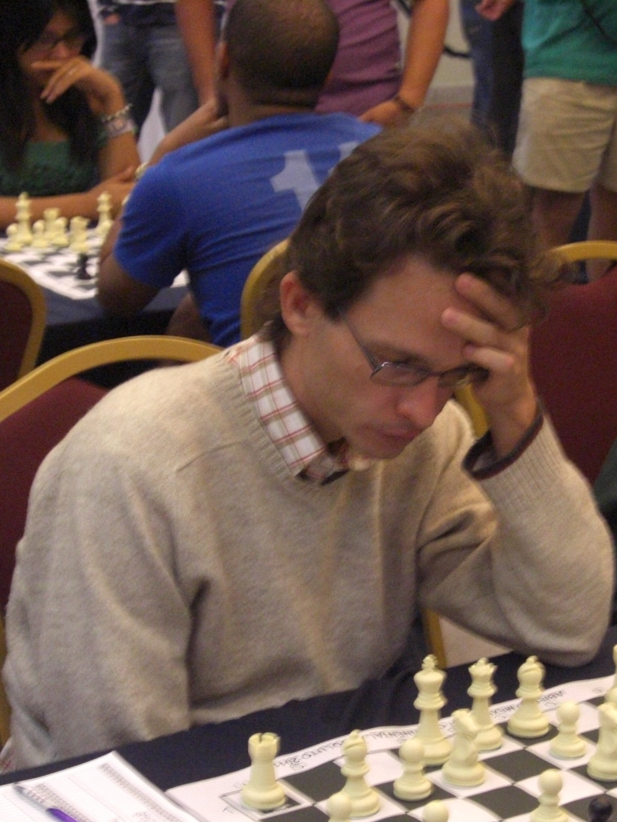 Aryam Abreau Delgado during the American Continental Chess Championship in Toluca (Mexico), April 2011